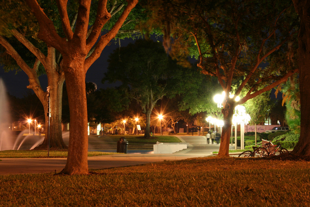 walkway next to the reflection pond (University of Central Florida)